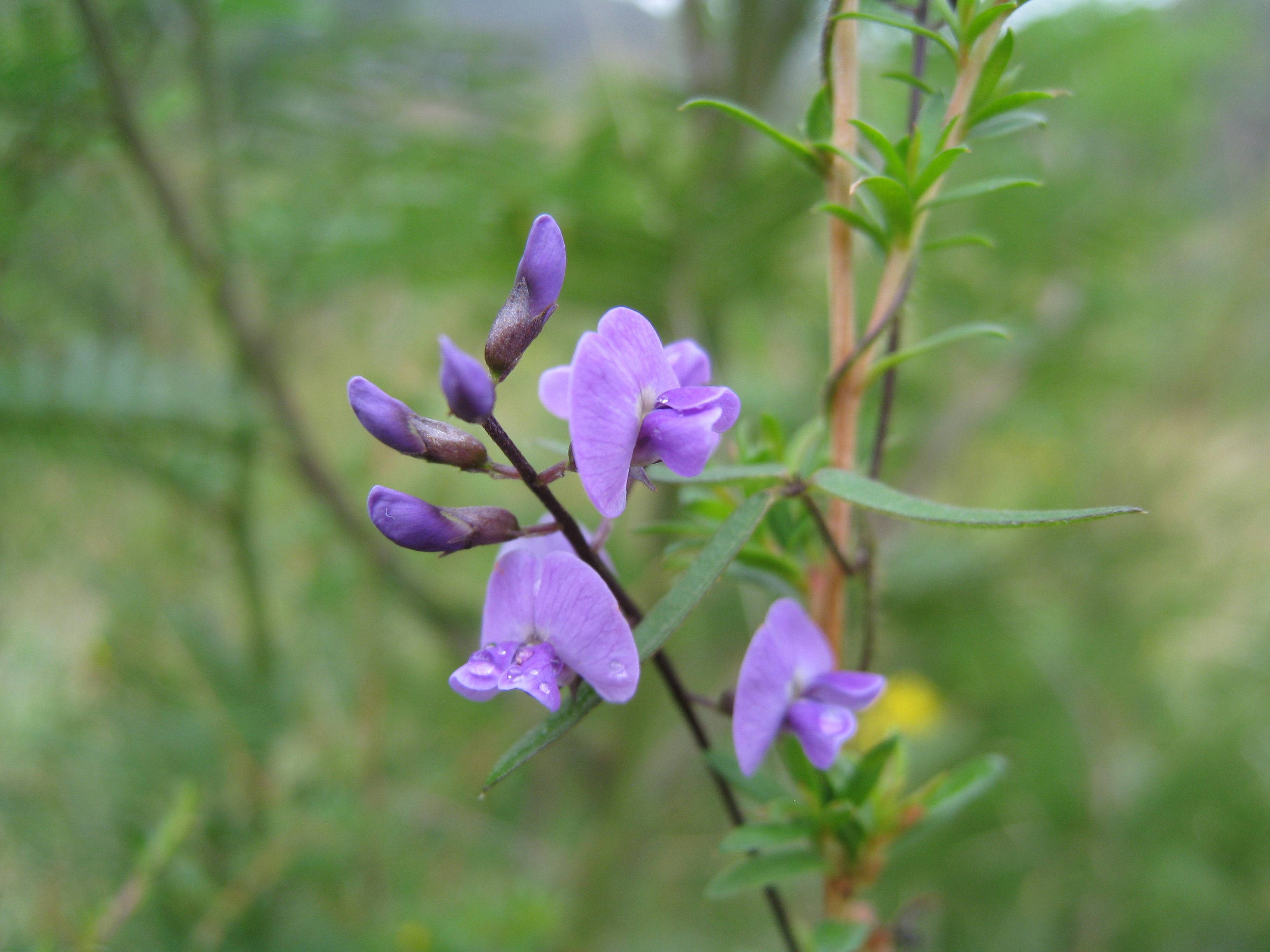 Glycine clandestina. Described as a slender twiner, found in moist situations amongst dense undergrowth, especially grasses. Spot on Mr Robinson. Dargo VIC Australia, January 2011.